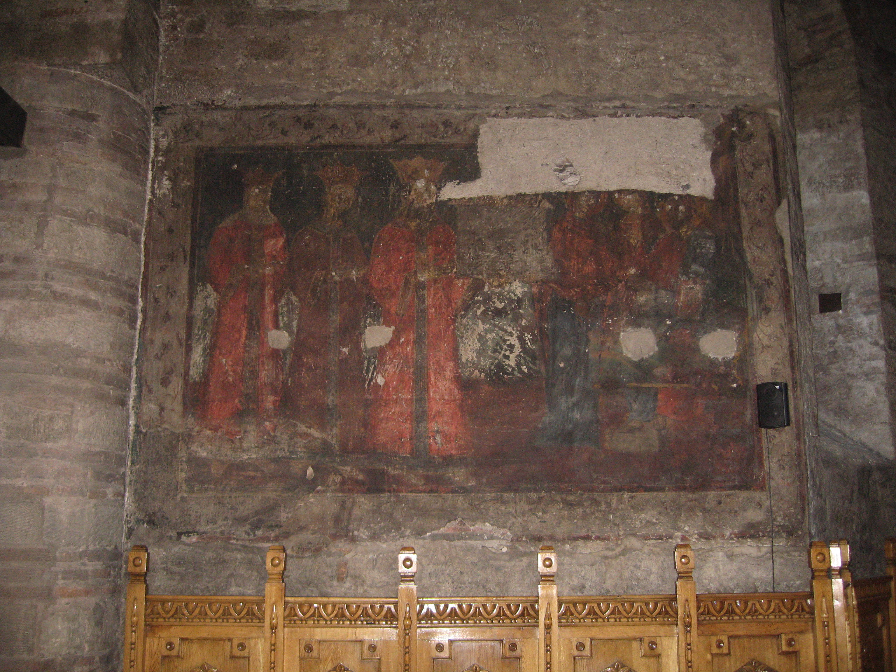 Mănăstirea Galata